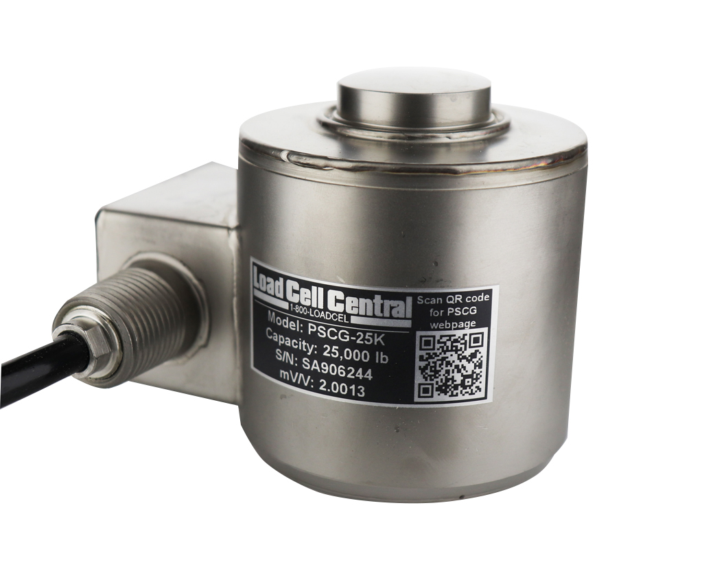 PSCG canister load cell